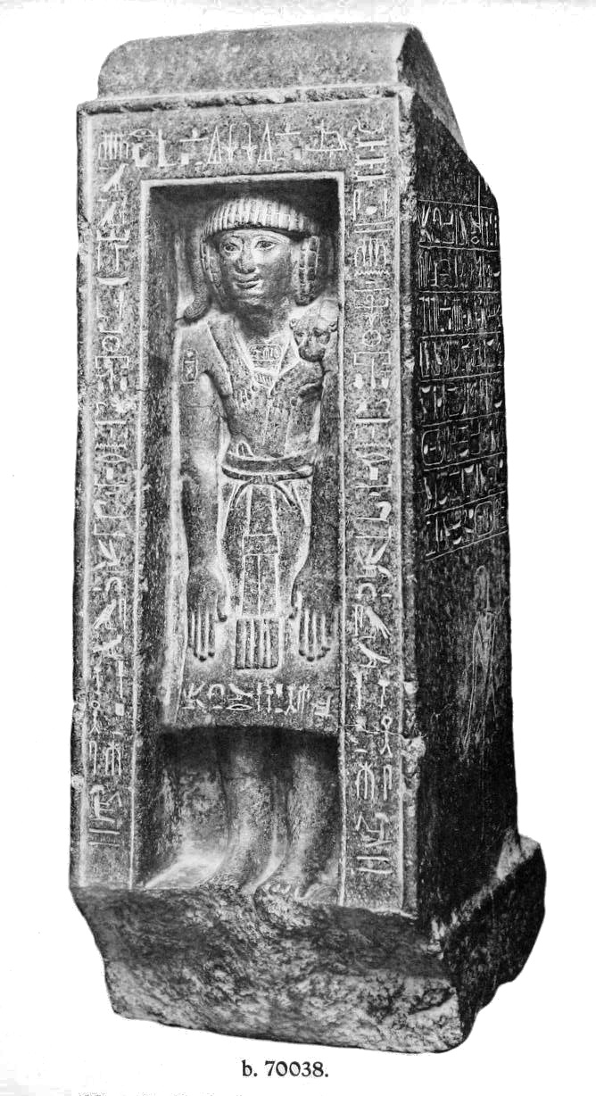 Naos with statue of the High Priest of Ptah Ptahmose, who served under Thutmose III. Black granite (H. cm 80), from Abydos, reign of Thutmose III, 18th dynasty, New Kingdom. Cairo, Egyptian Museum CG/JE 70038.